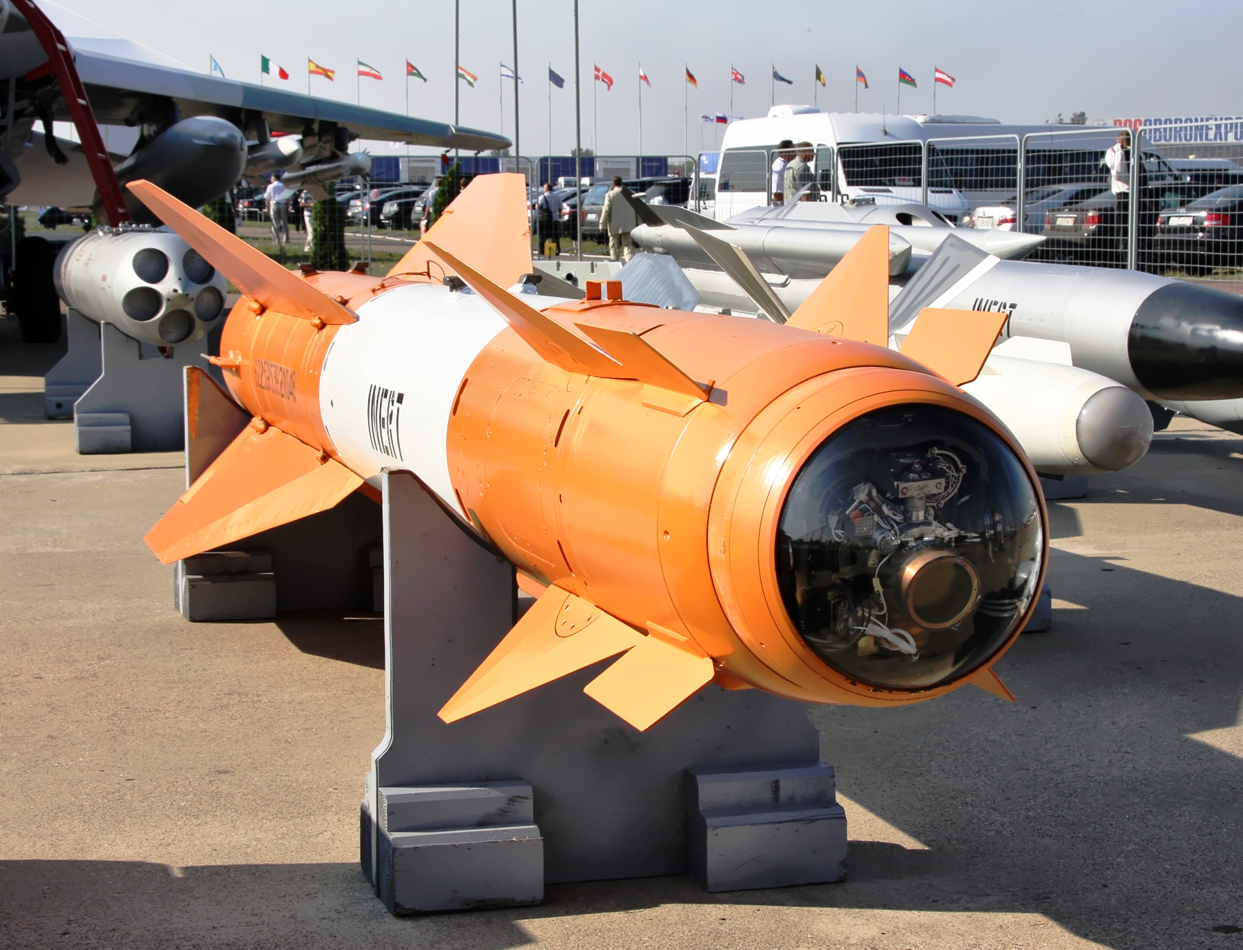 Air-to-surface guided missile Kh-29.